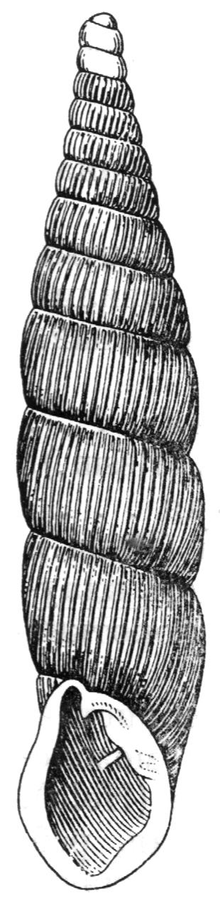 drawing of Alinda biplicata